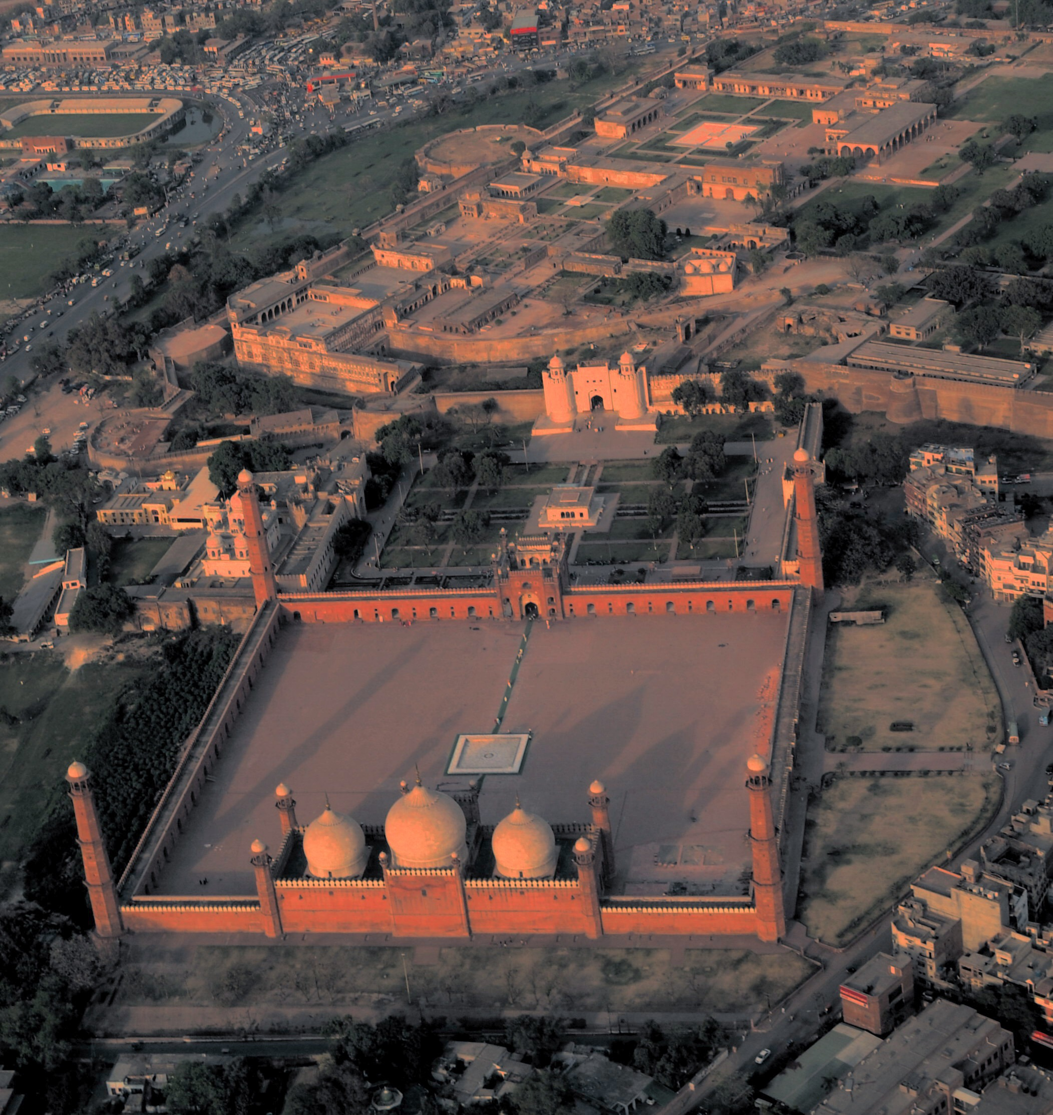 Badshahi Mosque (King’s Mosque) This is a photo of a monument in Pakistan identified as the PB-44